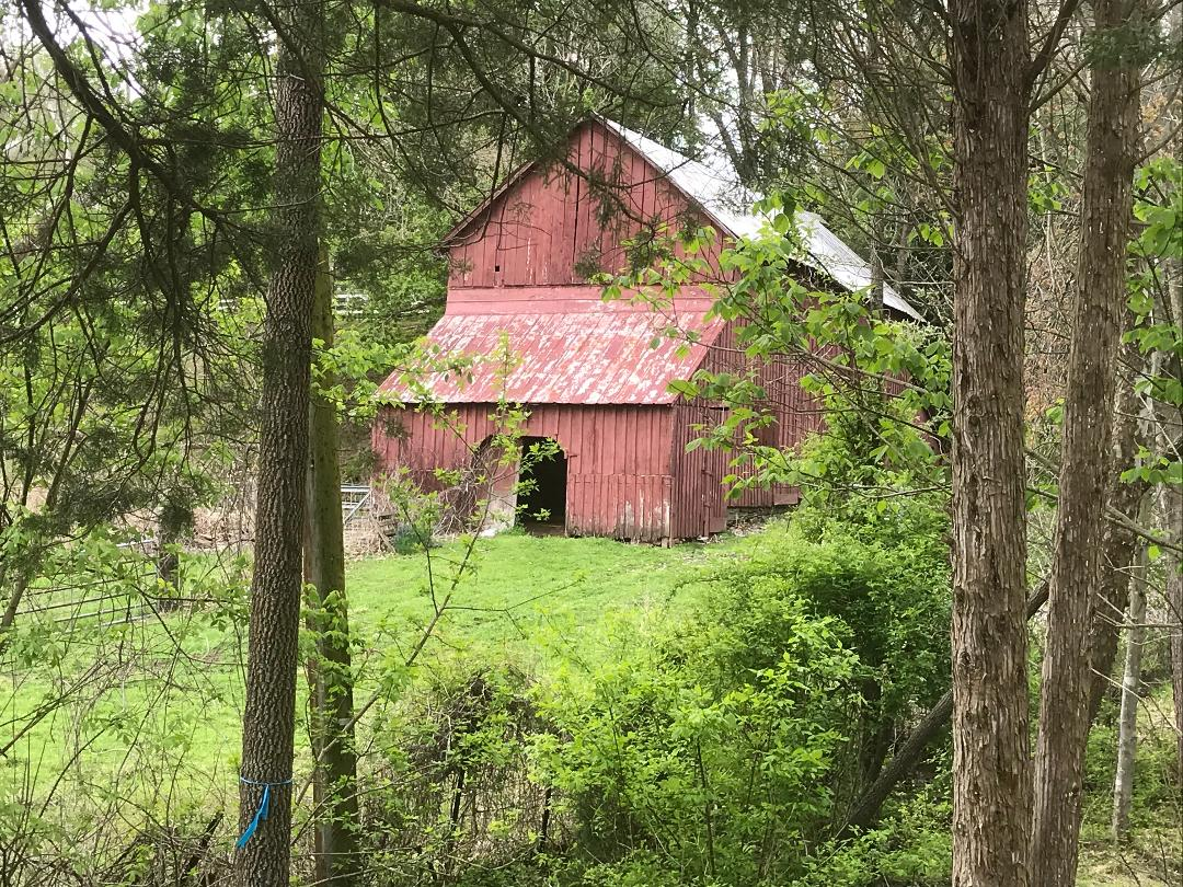 This is the barn at the site of where the DuFief Mill (built in 1850s) was in Montgomery County, Maryland. The mill had a road to the C&O Canal Pennyfield Lock.